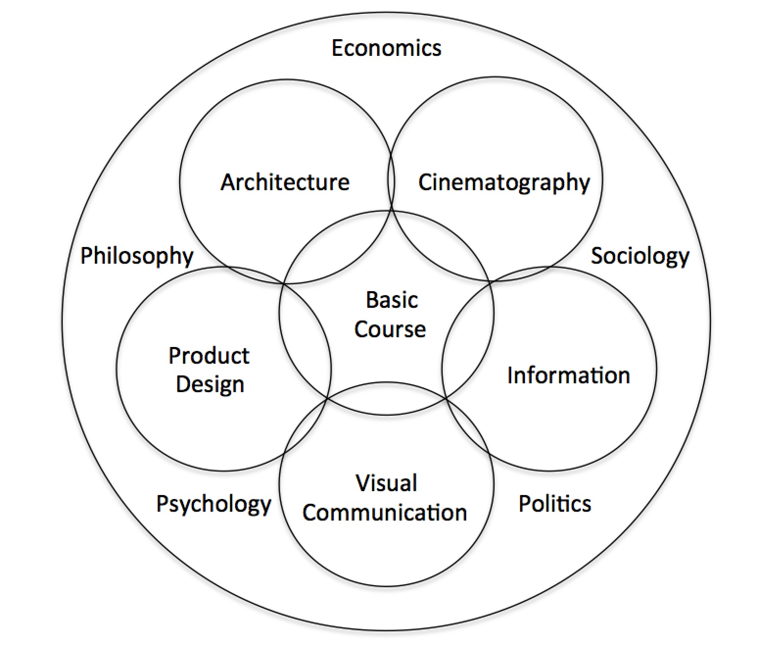 Schematic teaching of HFG Ulm. The school design was characterized by formulating a scheme based education in art and science. This diagram is translated from the Spanish page